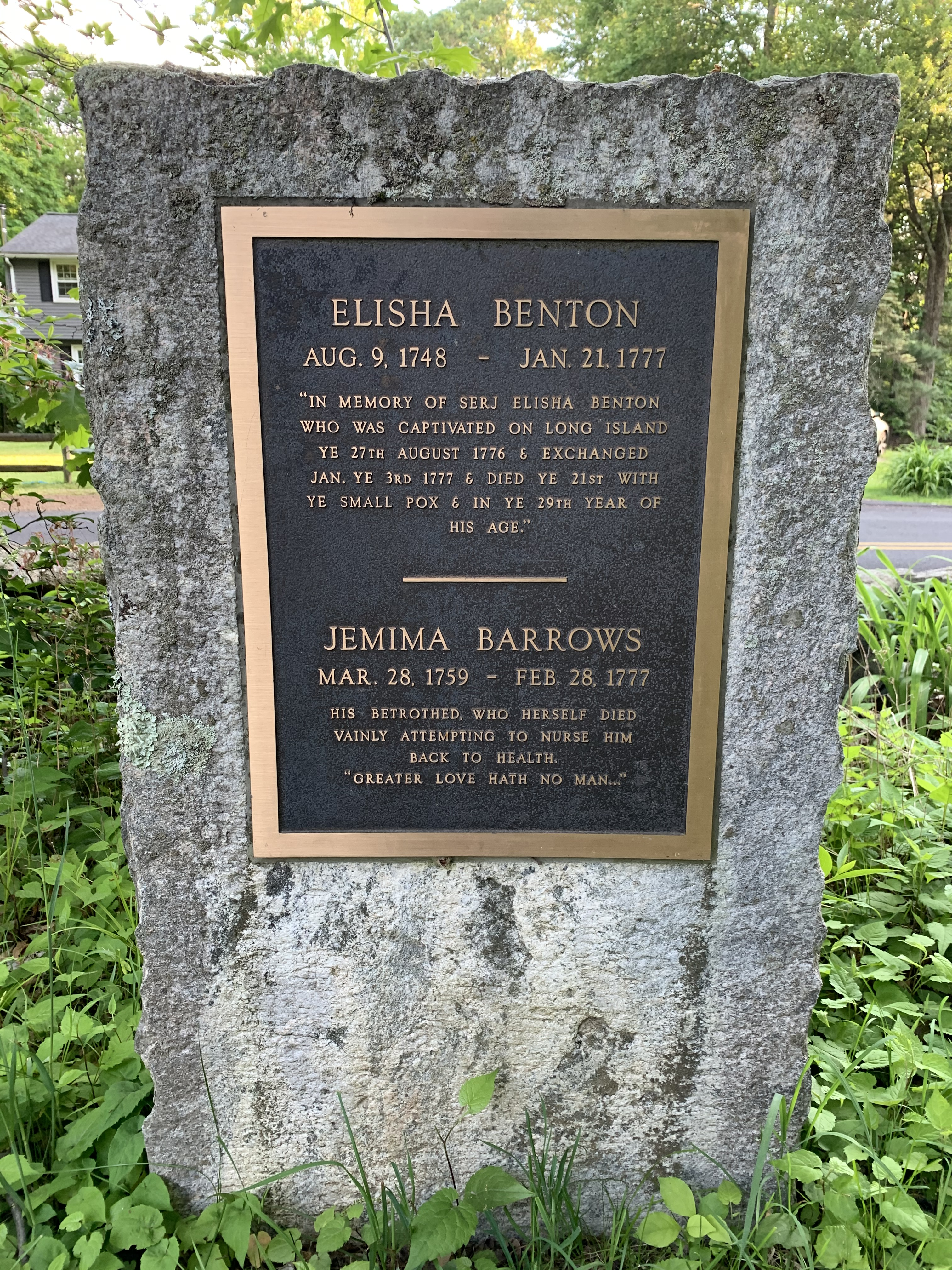 Historic marker for Elisha Benton and Jemima Barrows, Daniel Benton Homestead, Tolland, Connecticut